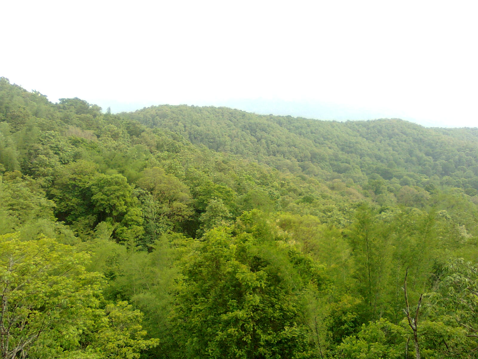 Parambikulam WLS